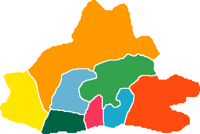 Subdivision of Lhasa